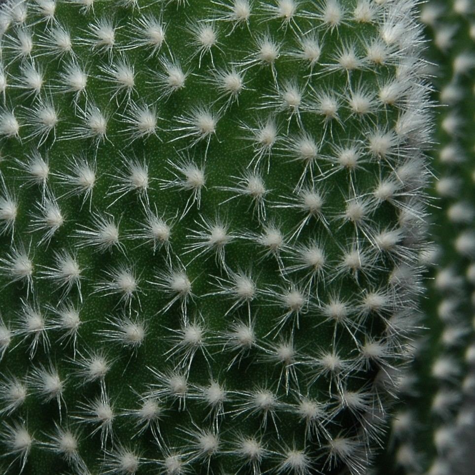 Glochides on Opuntia. Own plant.